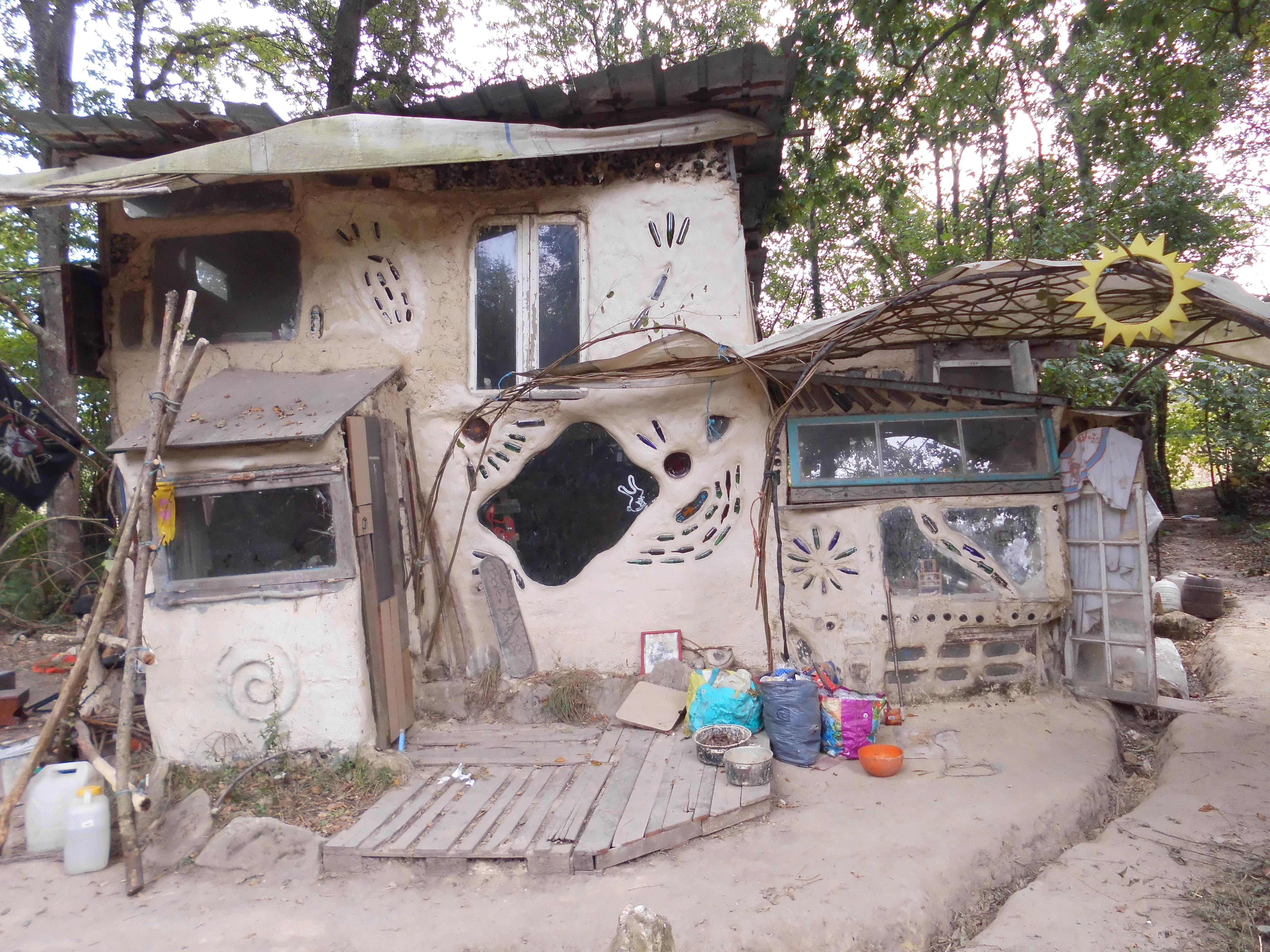 Cob House build from clay and straw found on site at the airport expansion occupation of Zad de Notre Dam in France.